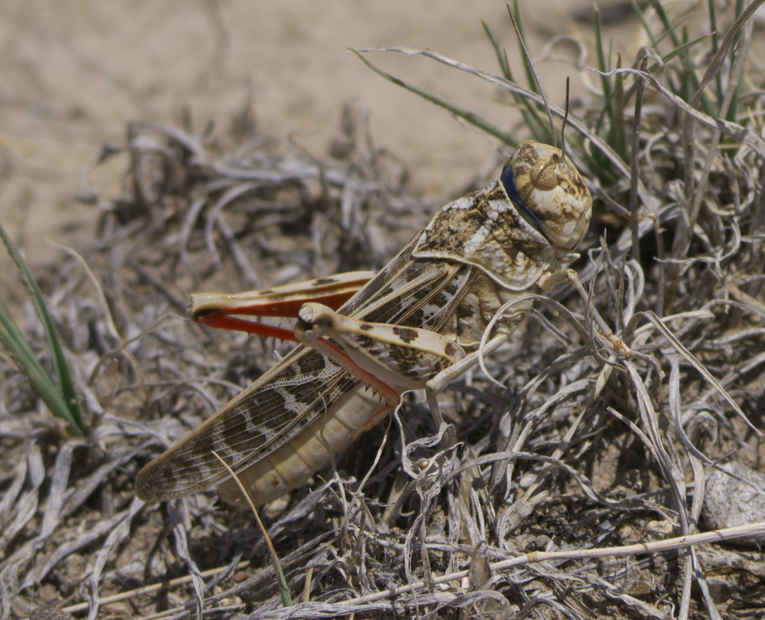 Xanthippus corallipes, Red-shanked Grasshopper, maybe pantherinus subspecies, ID Confidence: 88